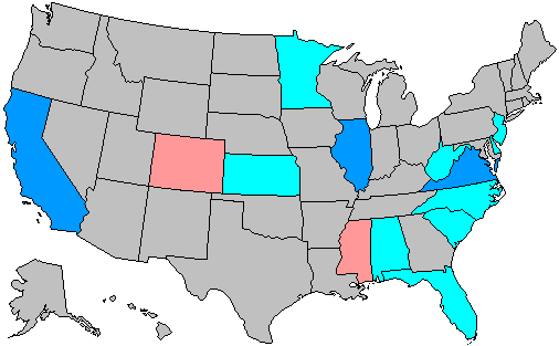 Summary of party change of U.S. house seats in the 1982 House election. Stripes indicate a tie between the gains of two or more parties. Legend: 6+ Democratic seat pickup 3-5 Democratic seat pickup 1-2 Democratic seat pickup 1-2 Republican seat pickup 3-5 Republican seat pickup 6+ Republican seat pickup Note: years ending in 2 may have inconsistent results due to redistricting.